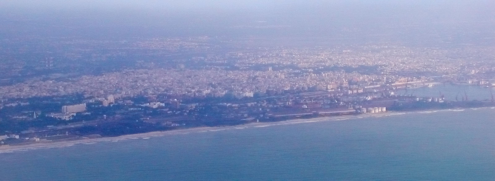 Aerial view Chennai Port and Georgetown, Chennai